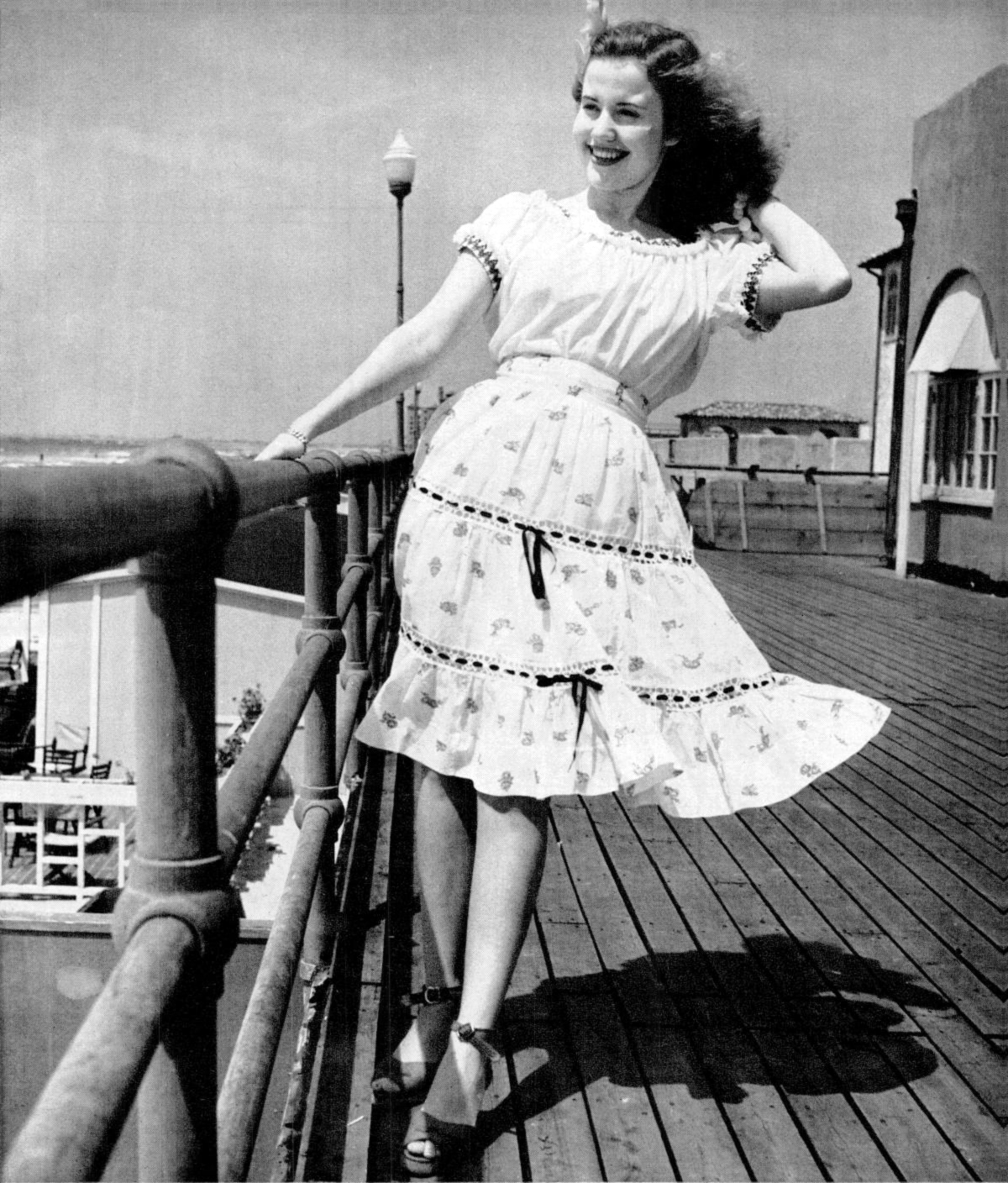 Photograph of actress Joyce Reynolds